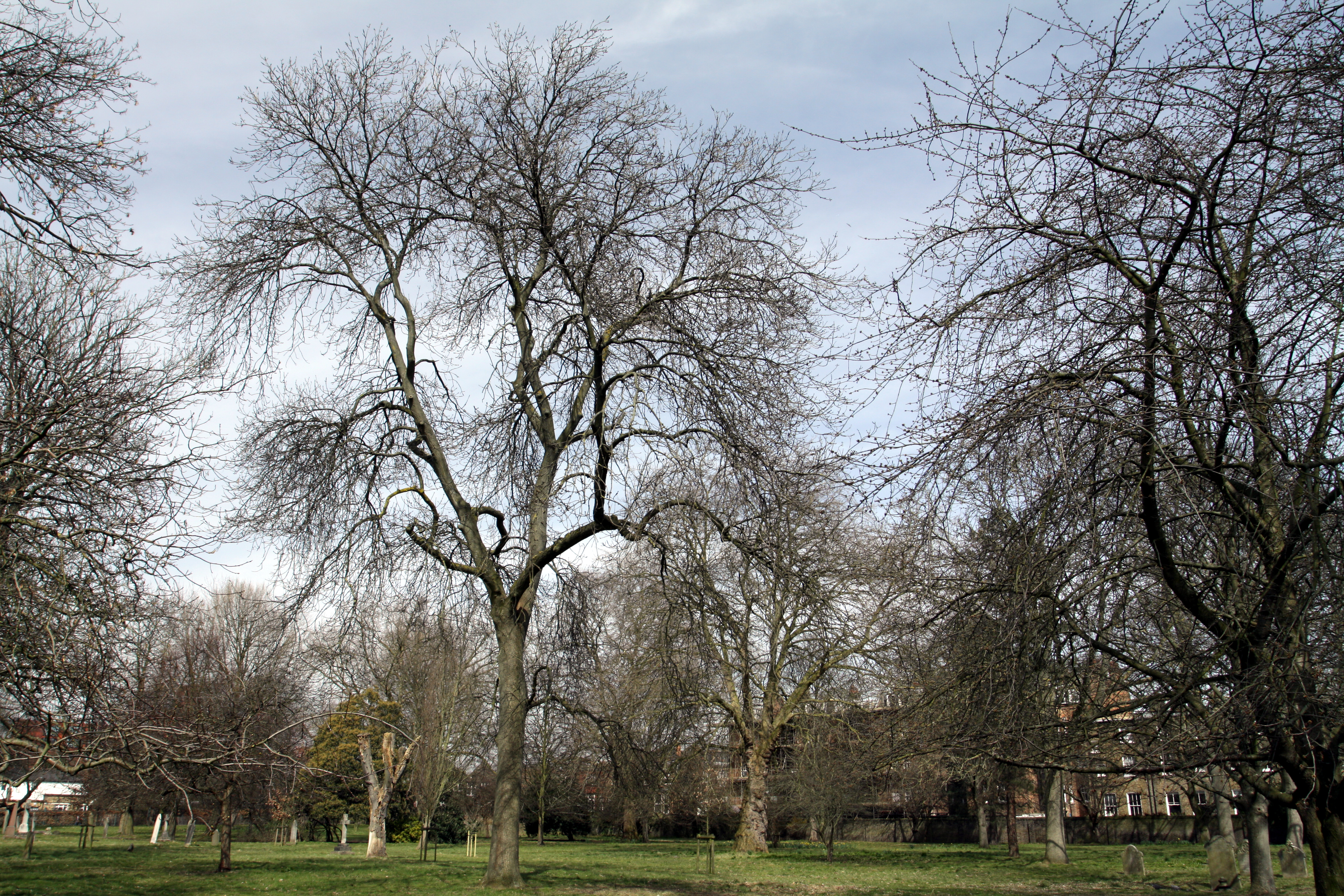 Margravine Cemetery, also known as Hammersmith Cemetery, in the London Borough of Hammersmith and Fulham, London, England, Great Britain. The making of this file was supported by Wikimedia UK.